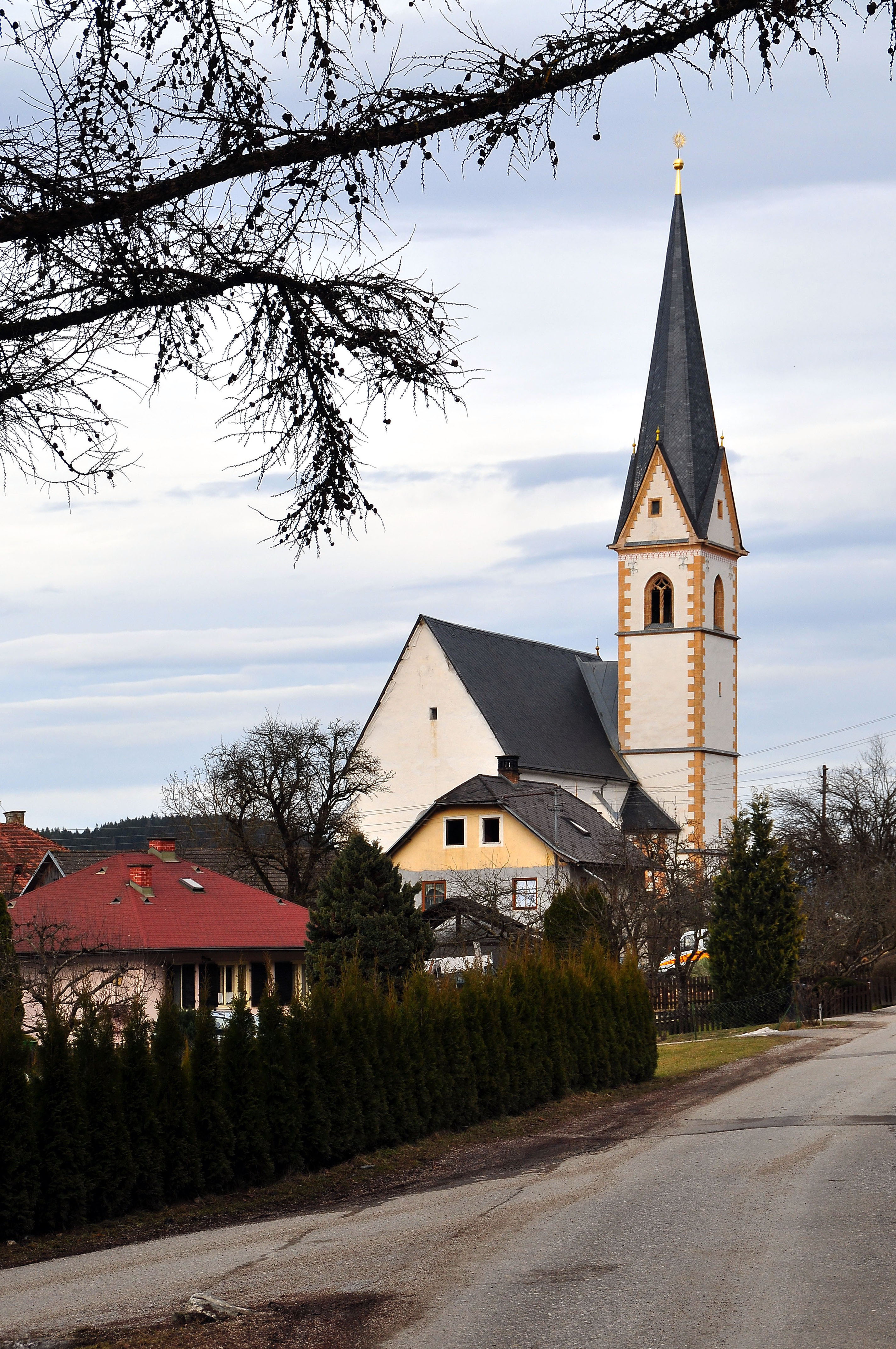 Subsidiary church Saint Mary at Maria Feicht, municipality Glanegg, district Feldkirchen, Carinthia / Austria / EU